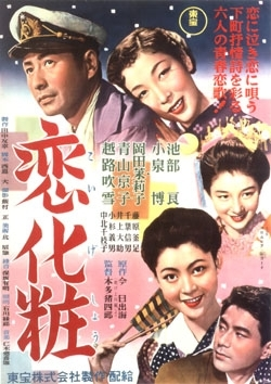 Japanese movie poster for 1955 Japanese film Love Makeup (Koi-gesho)